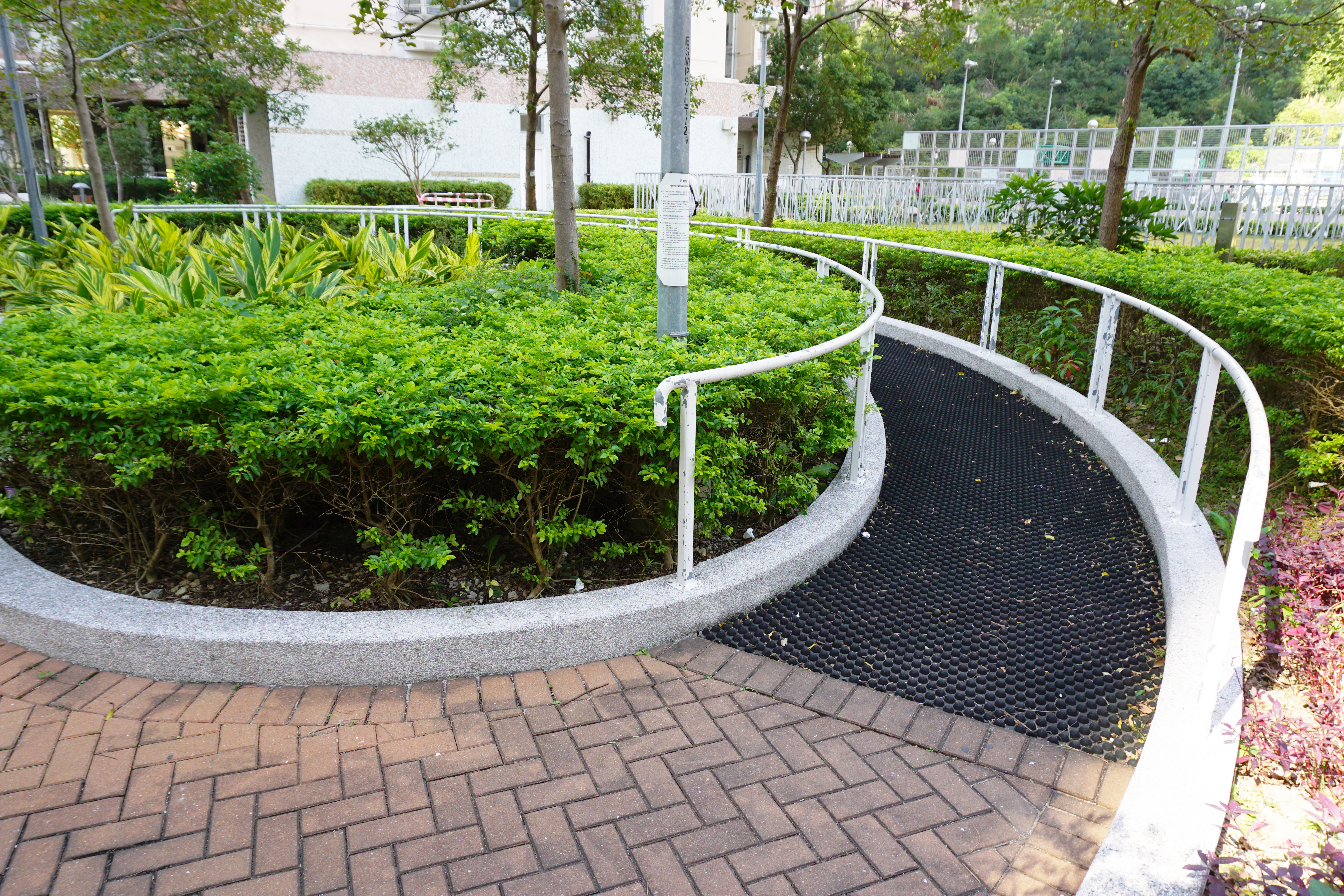 Sau Mau Ping South Estate in Sau Mau Ping, Hong Kong.